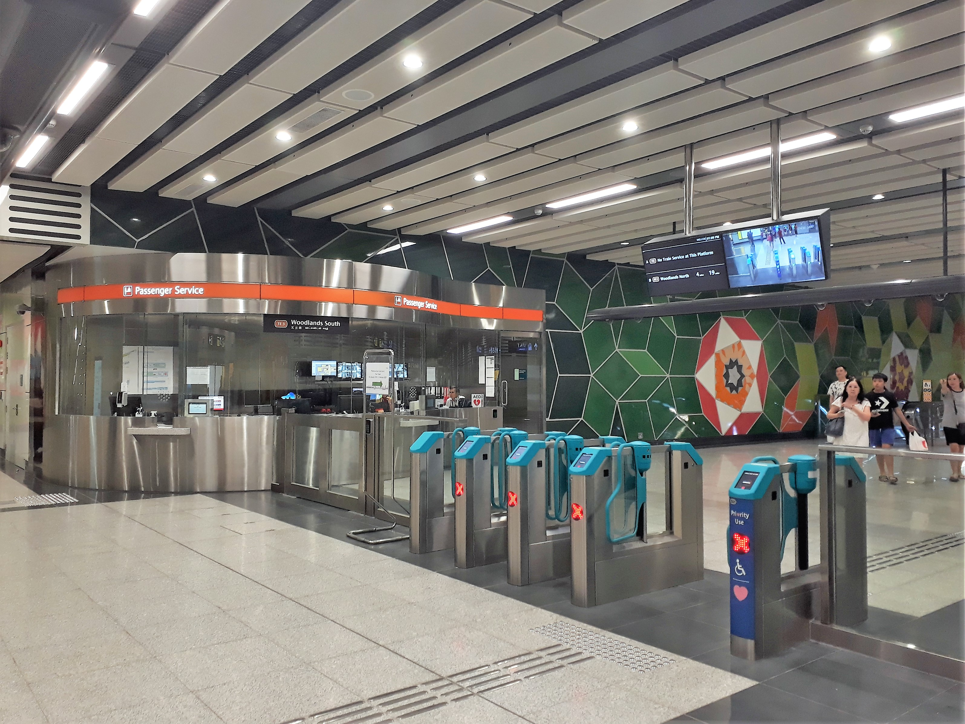 Woodlands South faregates and passenger service